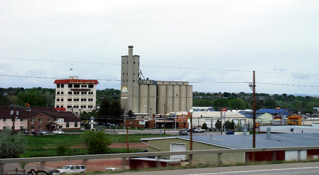 Sheridan seen from I-90